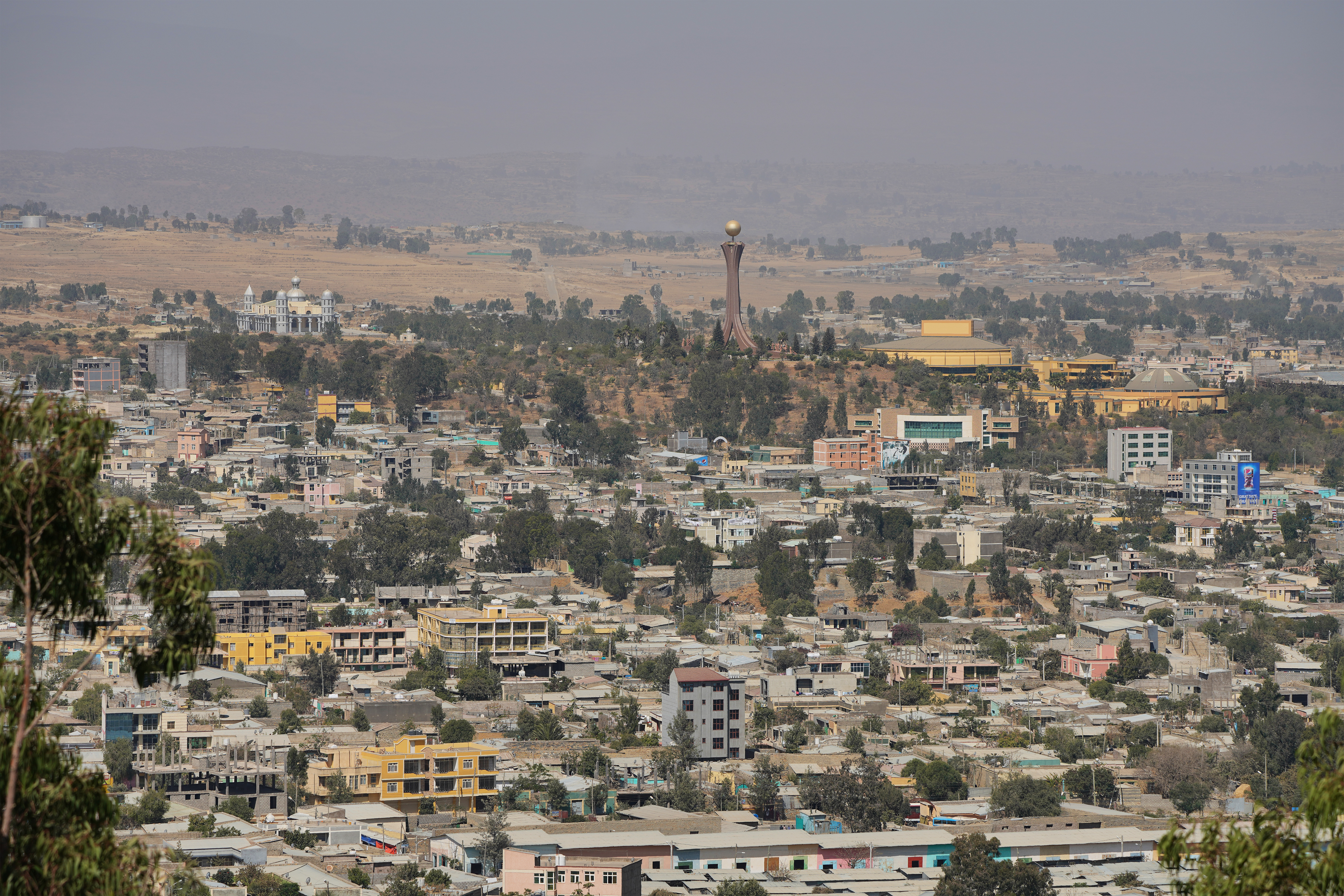 View from nearby the University in Mekele, Ethiopia